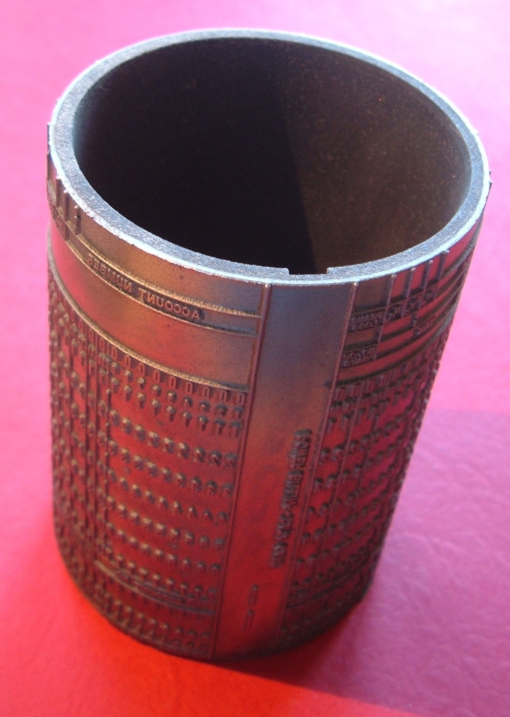 Cylindrical printing plate used to print punched cards. The object is about 83 mm high and 59 mm in diameter. It was used to print a "power billing data card."